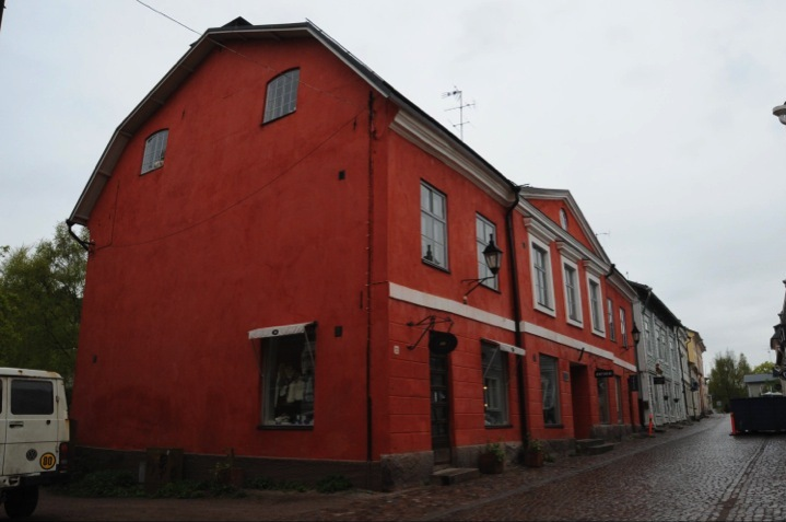 PORVOO CASTLE OR J.E. SOLITANDER’S HOUSE; TSAR ALEXANDER I AND KING GUSTAV III STAYED HERE DURING THE PORVOO DIET IN 1809 WHICH CONFIRMED FINLAND’S RIGHTS AS THE GRAND DUCHY OF FINLAND UNDER RUSSIA